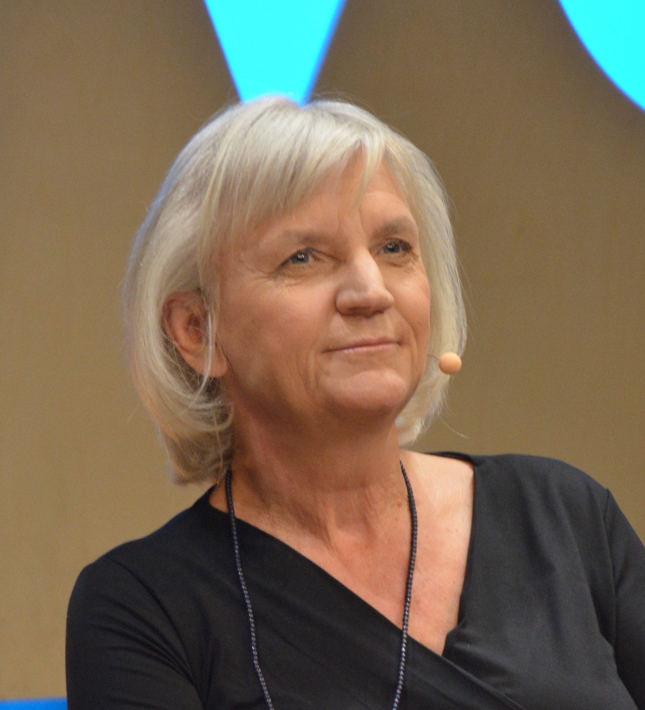 Marie Ehrling på Nordnet Live 2017